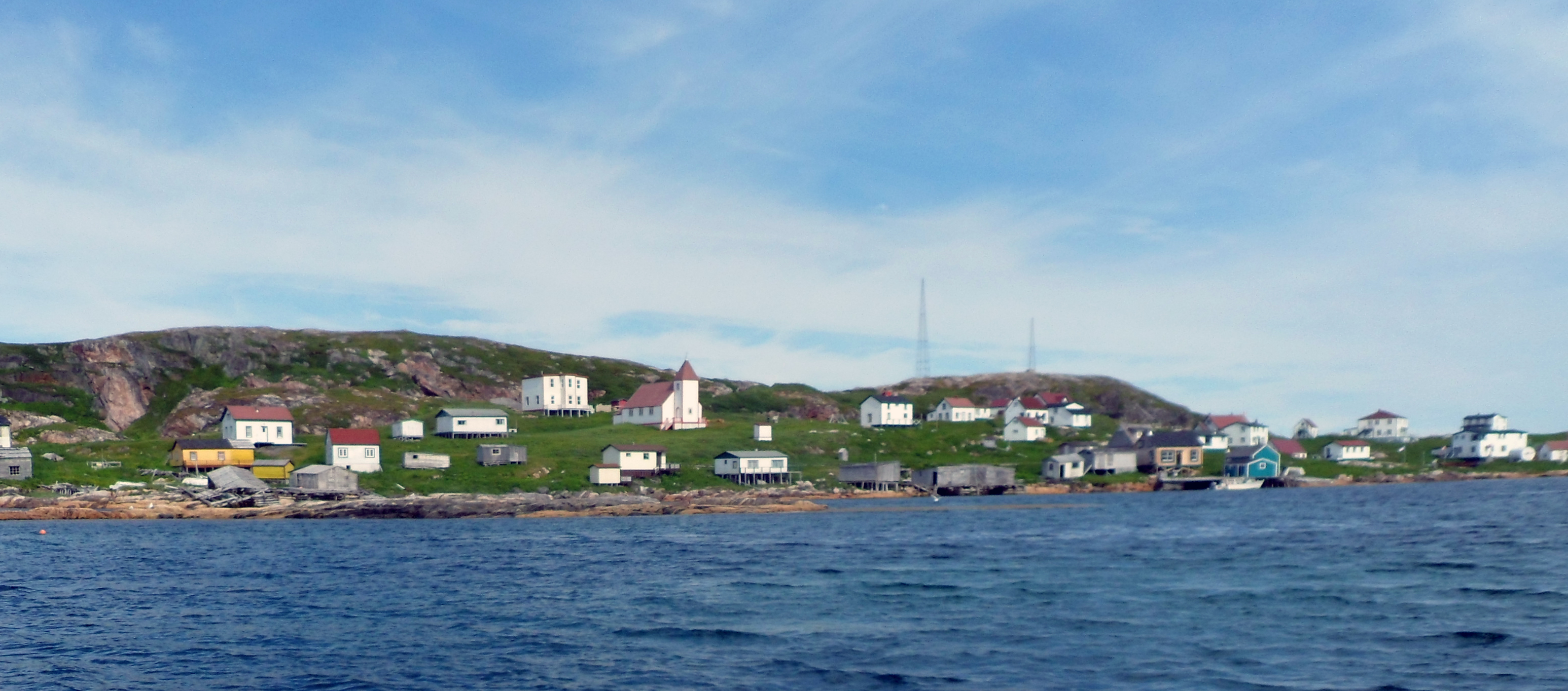 Battle Harbour Historic District National Historic Site of Canada